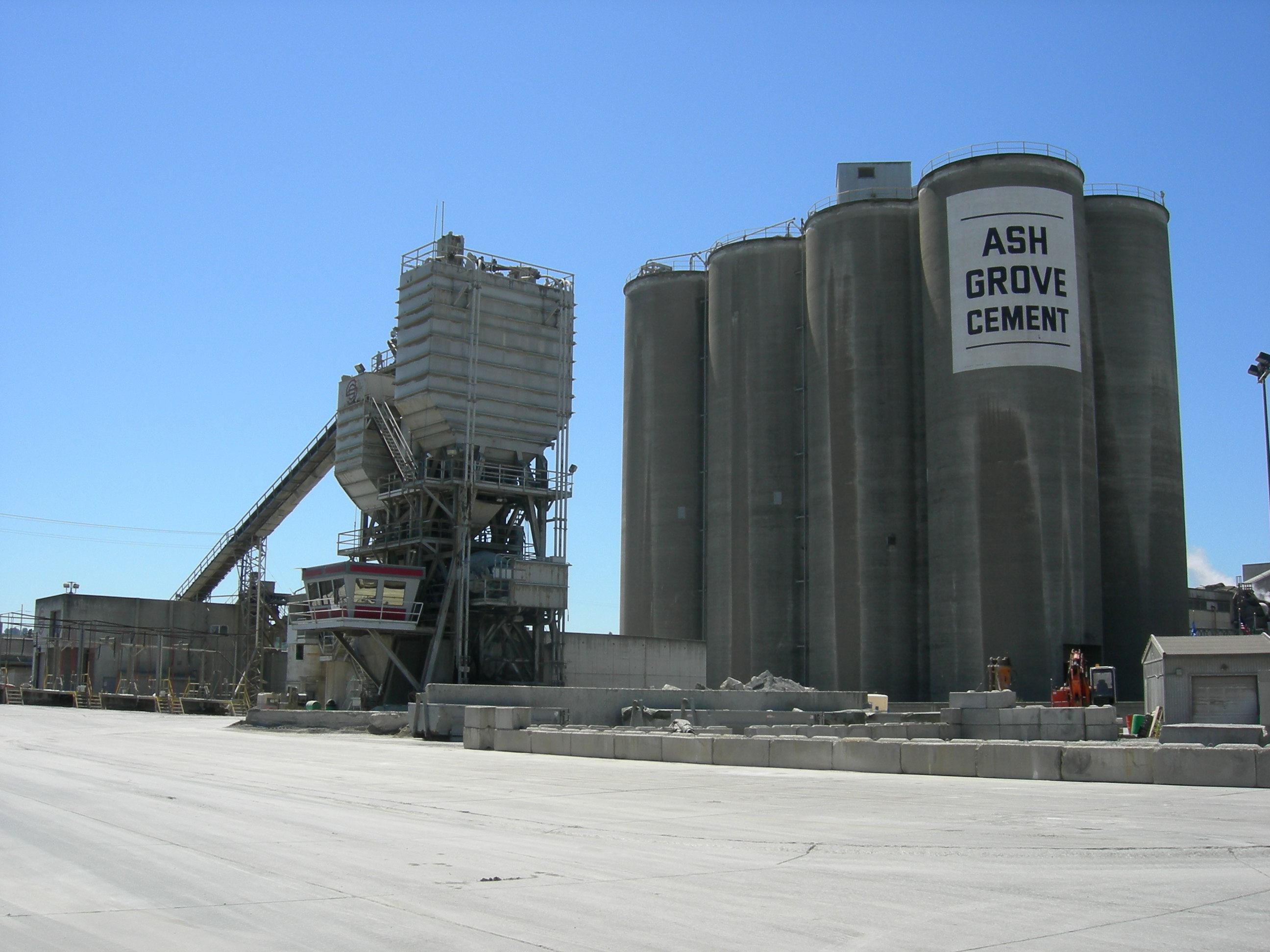 Ash Grove Cement Factory along the Duwamish River just south of Spokane Street in Seattle, Washington.